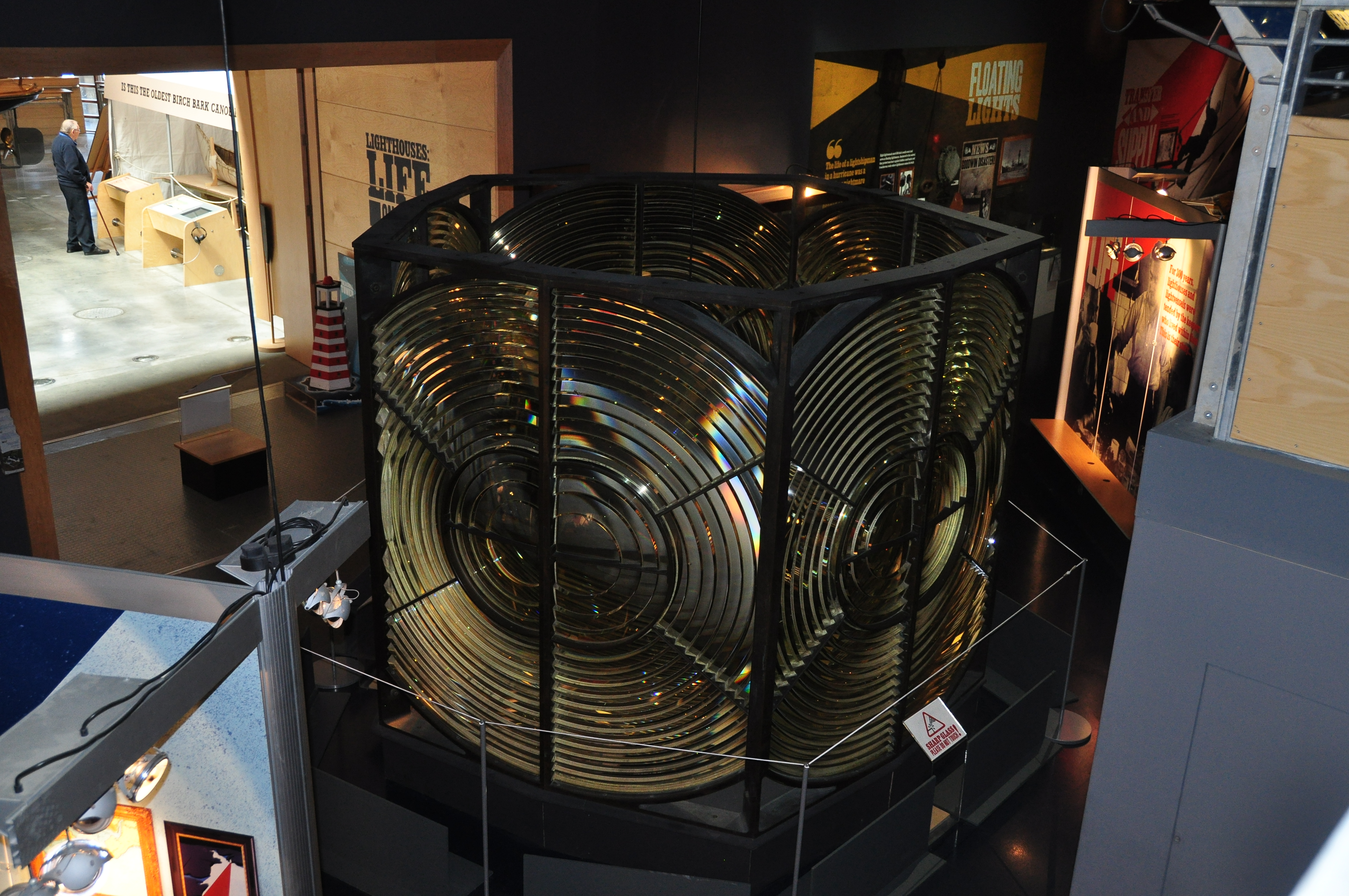 National Maritime Museum Cornwall